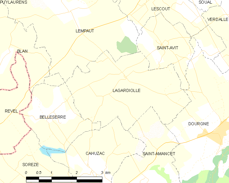 Map of French municipality Lagardiolle